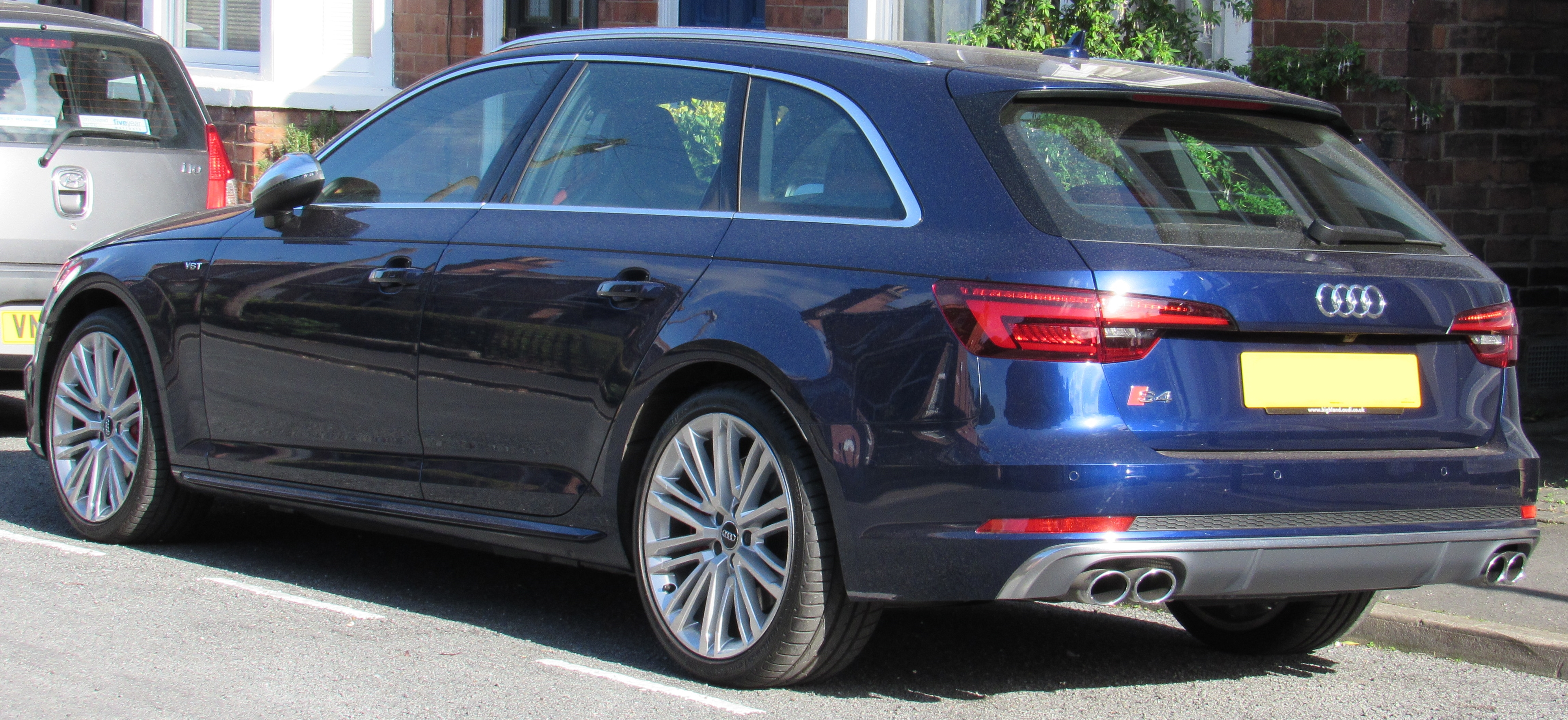 2017 Audi S4 TFSi Quattro Automatic 3.0 Taken in Leamington Spa